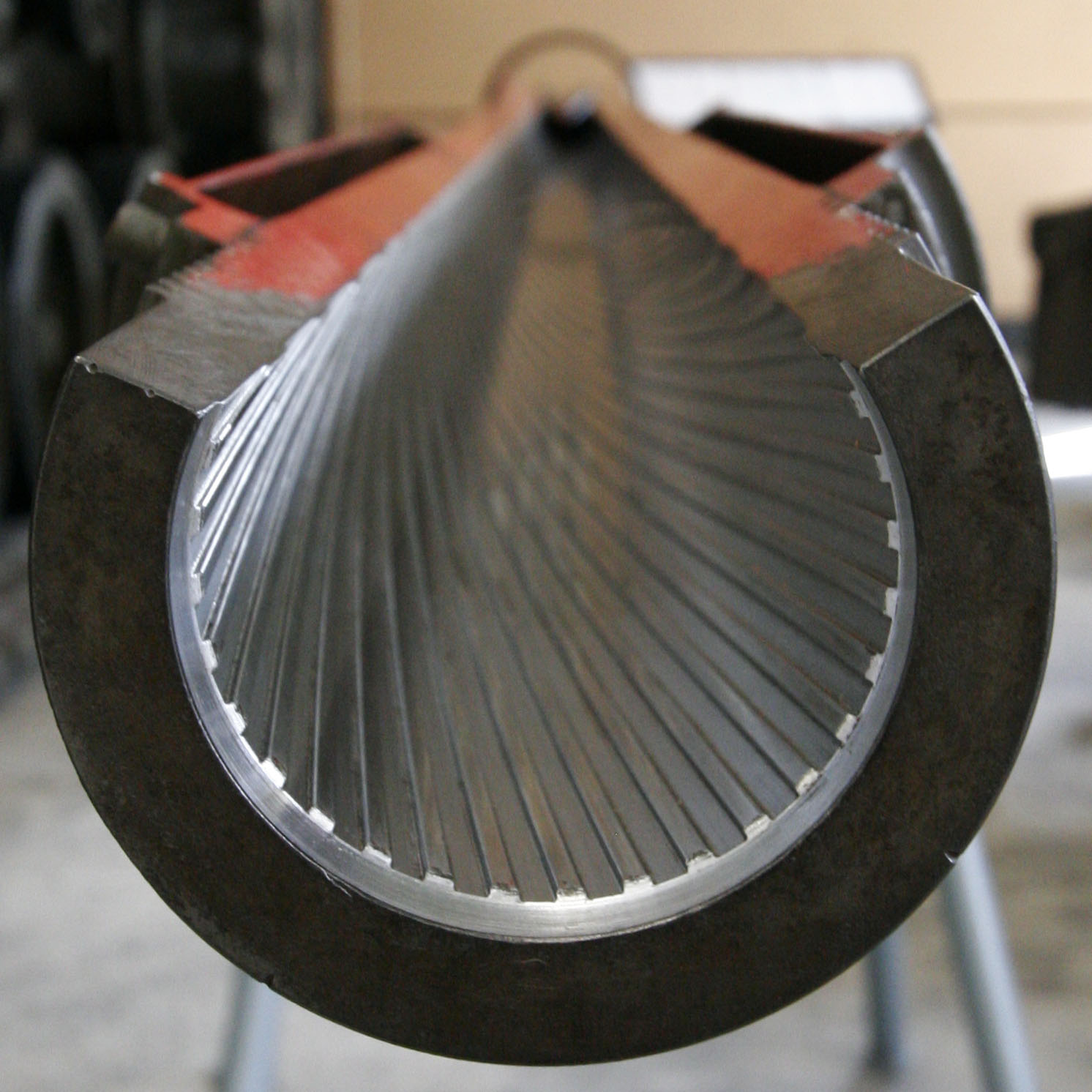 L7 105mm tank gun Cut model on display at the Deutsches Panzermuseum Munster , Germany.